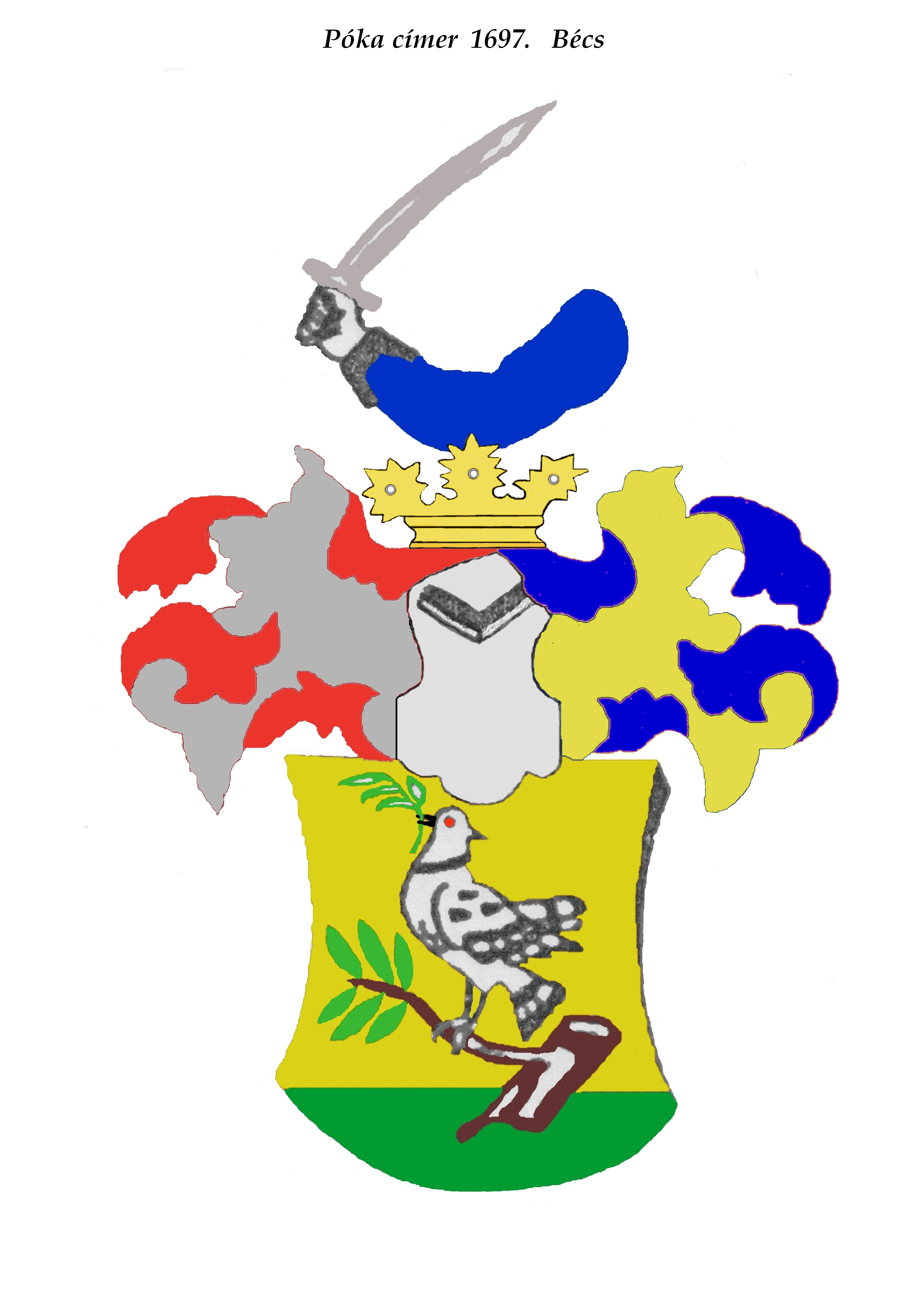 The coat of arms of my ancestors coloured by myself.